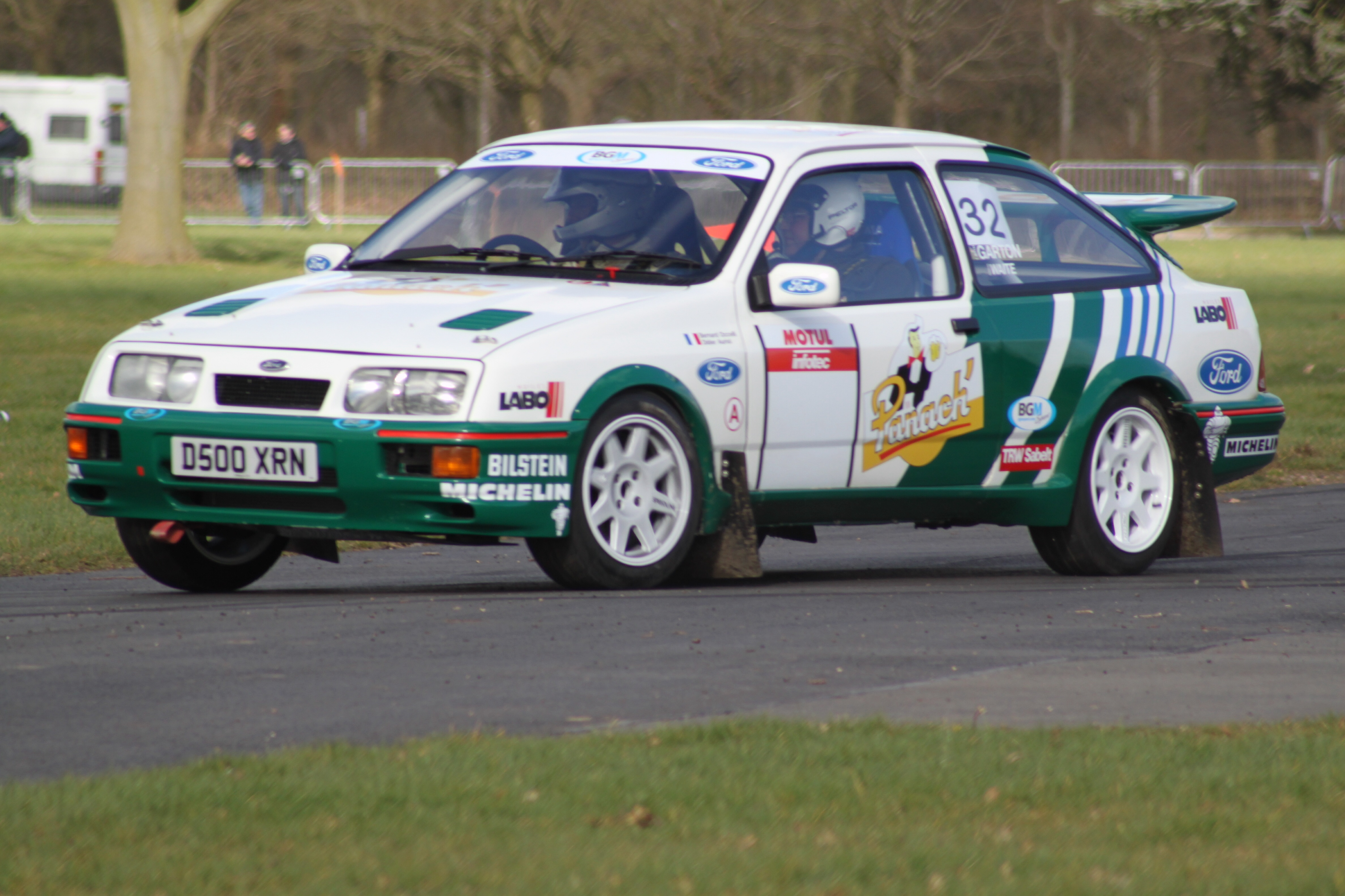 Auriol